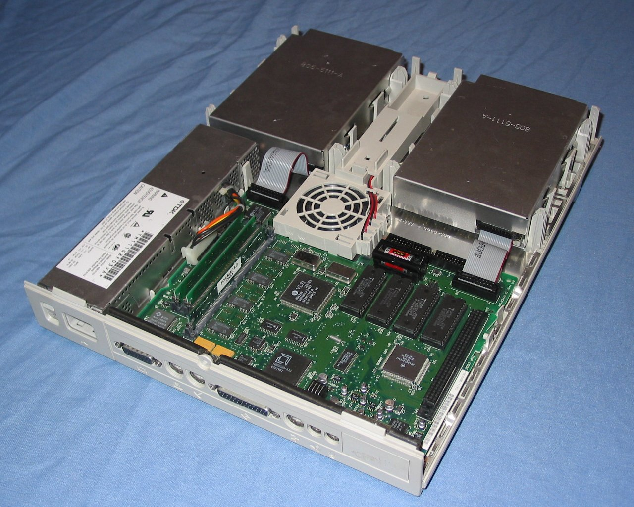 View of the internals of a first-generation Macintosh LC